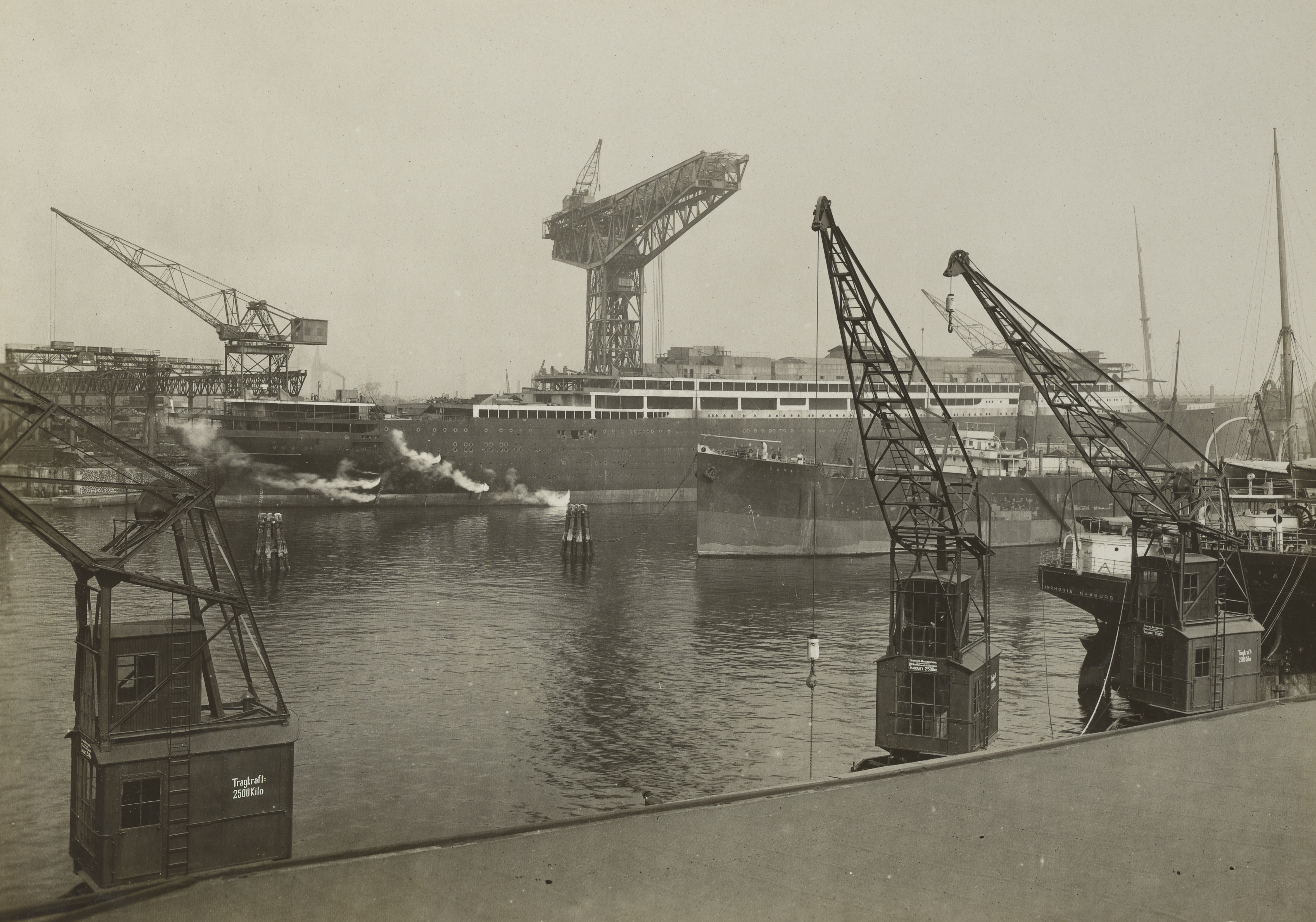 Scope and content: Photographer: Brown and Dawson